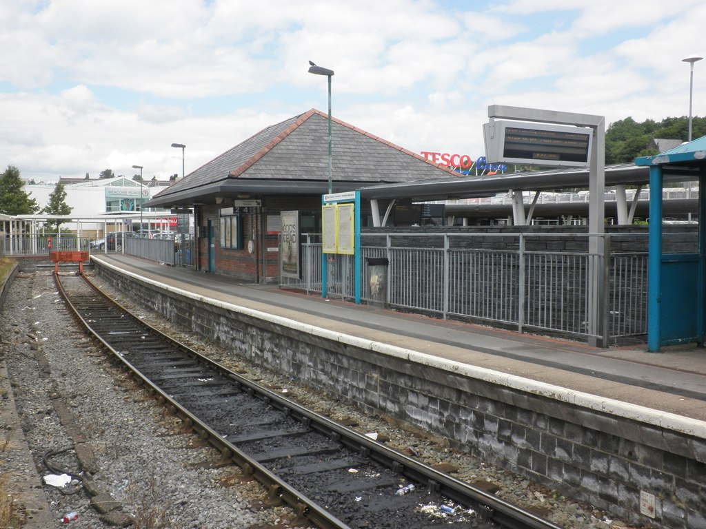 Railway Station, Merthyr Tydfil